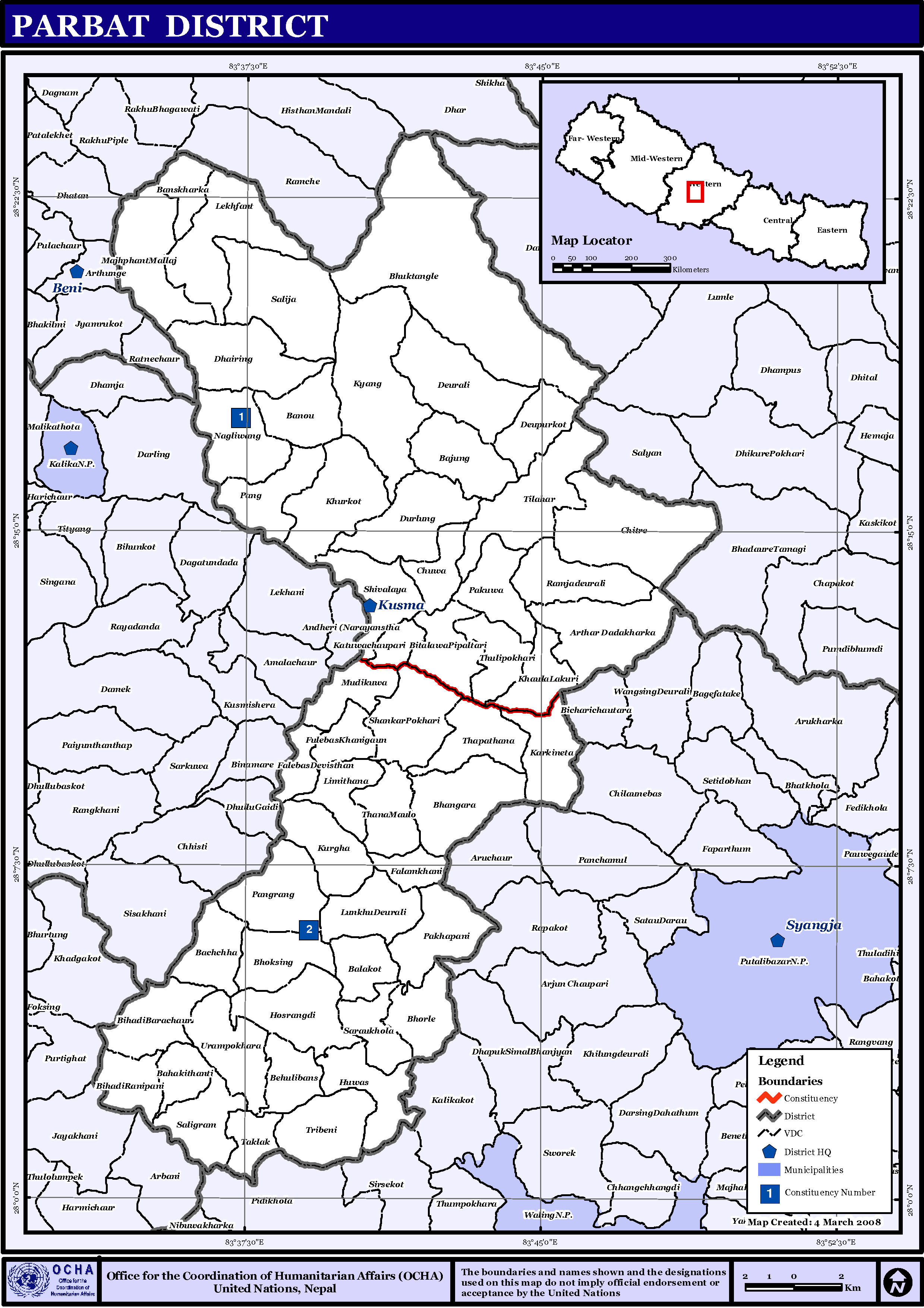 Map displaying Village Development Committees in Parbat District, Nepal